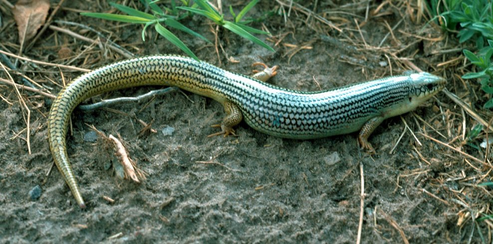 Crop of file in filename